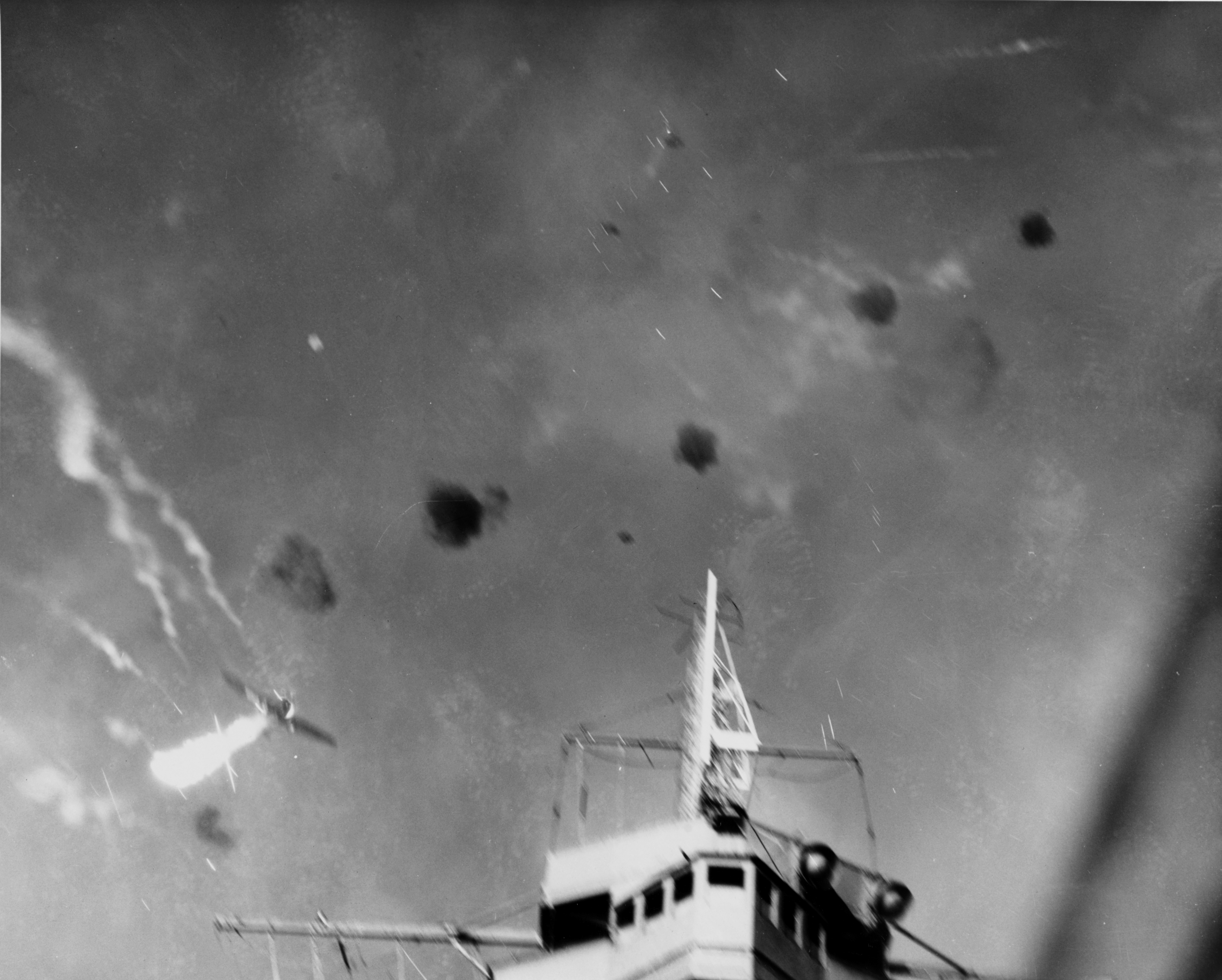 A Japanese Aichi D3A dive bomber, believed to be piloted by Yoshihiro Iida, burns as it is shot down by anti-aircraft fire directly over the U.S. Navy aircraft carrier USS Enterprise (CV-6) during the Battle of the Eastern Solomons, 24 August 1942.